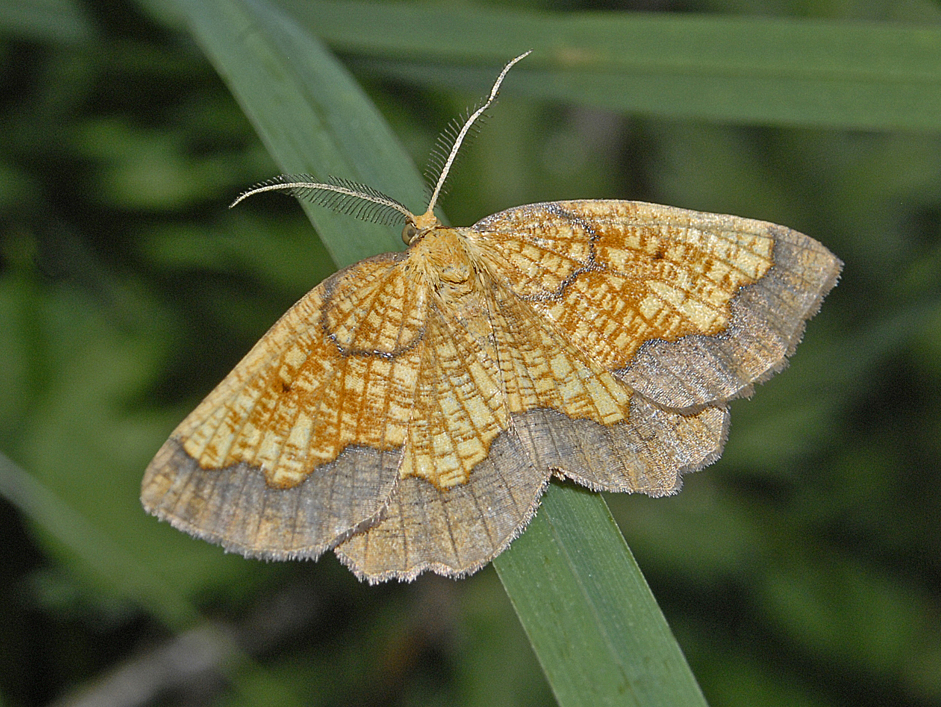 Epione vespertaria. Male. Val Ferret, Aosta, Italy